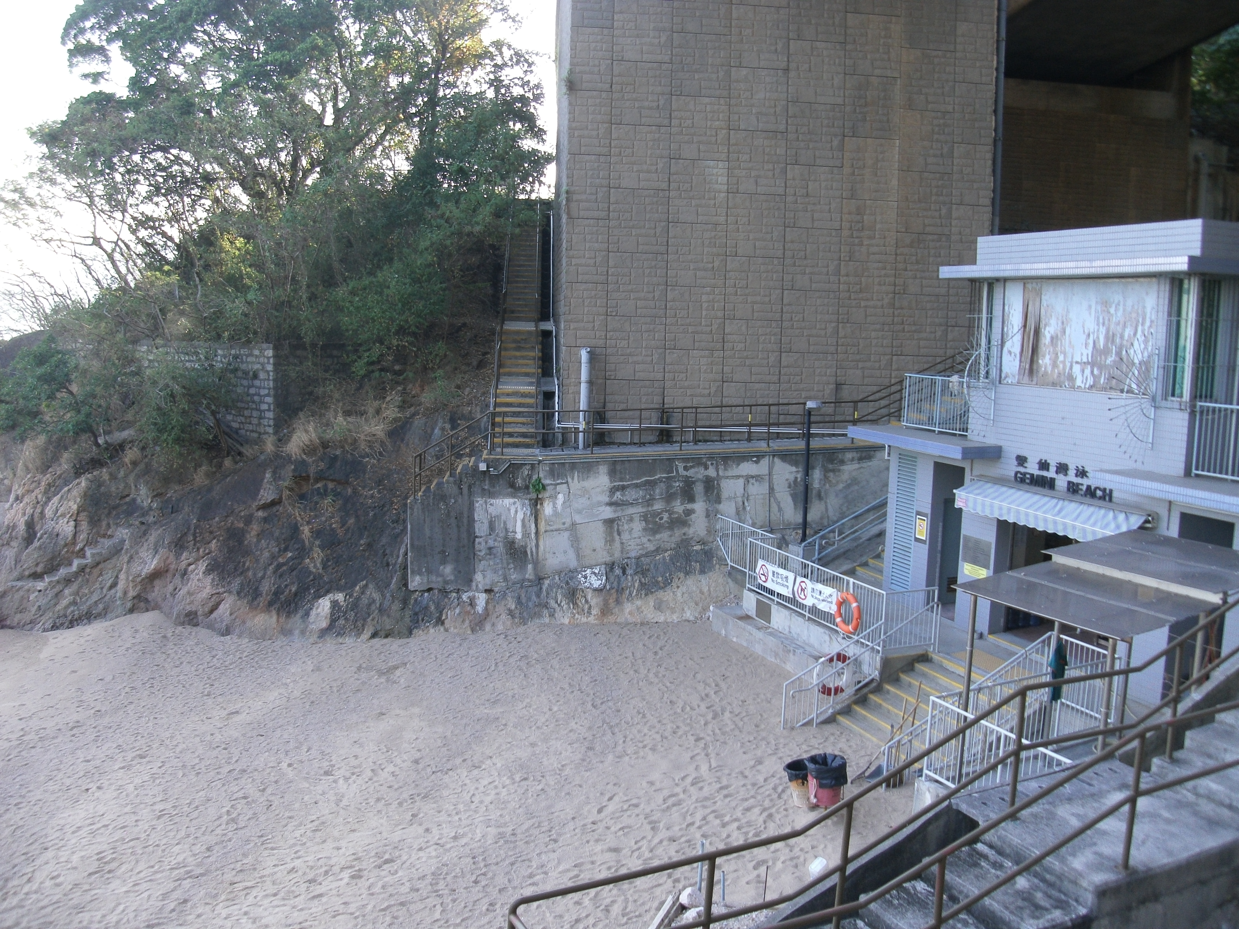 gemini beach